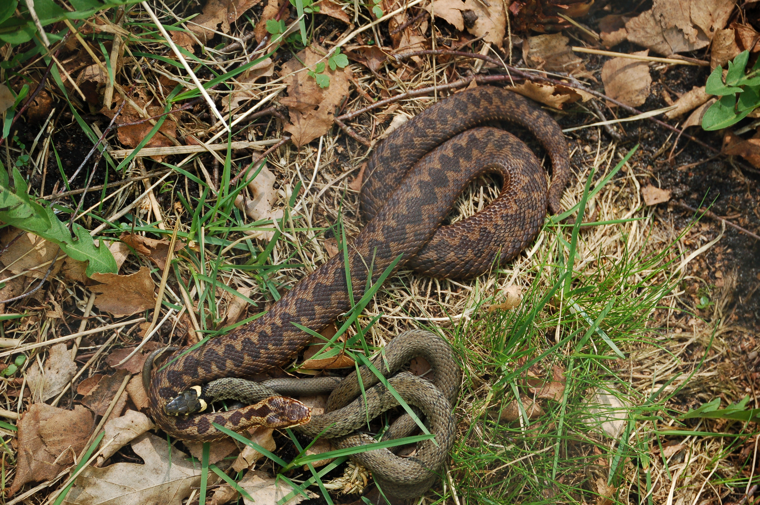 A common European adder (Vipera berus) on top with a grass snake (Natrix natrix) below in Eekholt wildlife park.